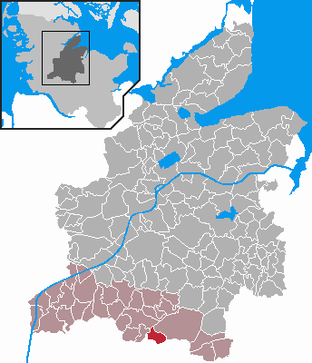 Locator maps of municipalities in Schleswig-Holstein - District Rendsburg-Eckernförde